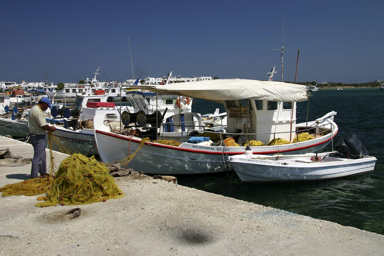 Antiparos, Greece.